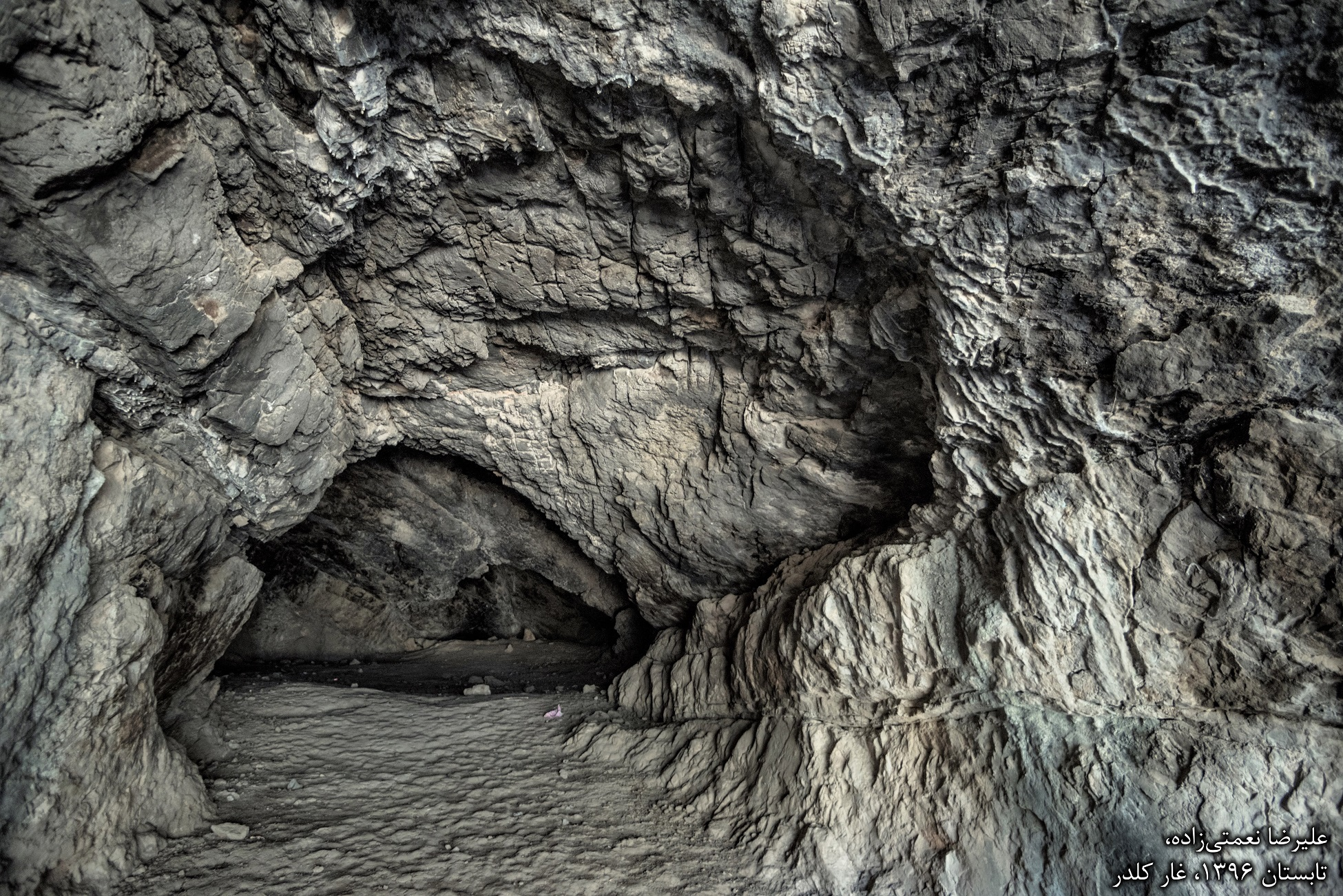 Kaldar cave. photo by alireza nemati zadeh